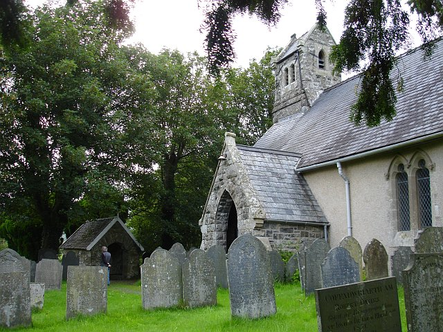 St Cadfan's church, Llangadfan Believed to have been built in the 15th century (although the heavily rendered walls make dating difficult), the original church is said to have been founded by St Cadfan, a Breton missionary who became the first abbot of the monastery on Bardsey Island in c.604. For a closer view of the stone lych gate